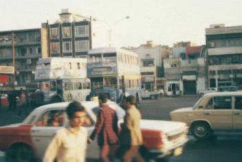 Baghdad, Iraq in June 1977